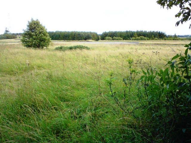 Ouston Airfield (disused) Ouston Airfield Opened in March 1941 as a fighter station and Sector HQ in 13 Group, Fighter Command. Newcastle airport was located at Ouston with effect from 1 Nov 1965 until the end of March 1966 while Newcastle Airport underwent alterations. (Confirmed by a search of meteorological observations from Newcastle (Woolsington) airport in 1965 and 1966 held at the National Met. Archives at Exeter by Martin Young. Many thanks to Martin for sharing this information, he adds "Ironically, according to the Newcastle Evening Chronicle of 2 April 1966, the very first day of operation of the new airport at Woolsington (2 April 1966) was severely disrupted by deep snow on the runway following a major snowfall the previous night. A number of flights were cancelled.") The site was taken over by the Army shortly afterwards and forms part of Albemarle Barracks.